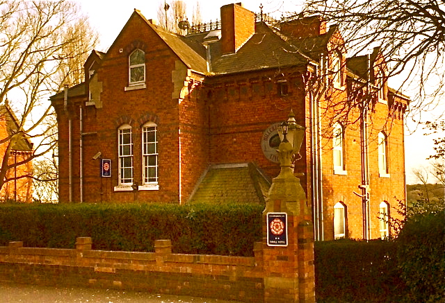 Hillcrest Hotel, Lindum Terrace, Lincoln (former St Swithin's parsonage) 1871, by the Lincoln architect Henry Goddard.